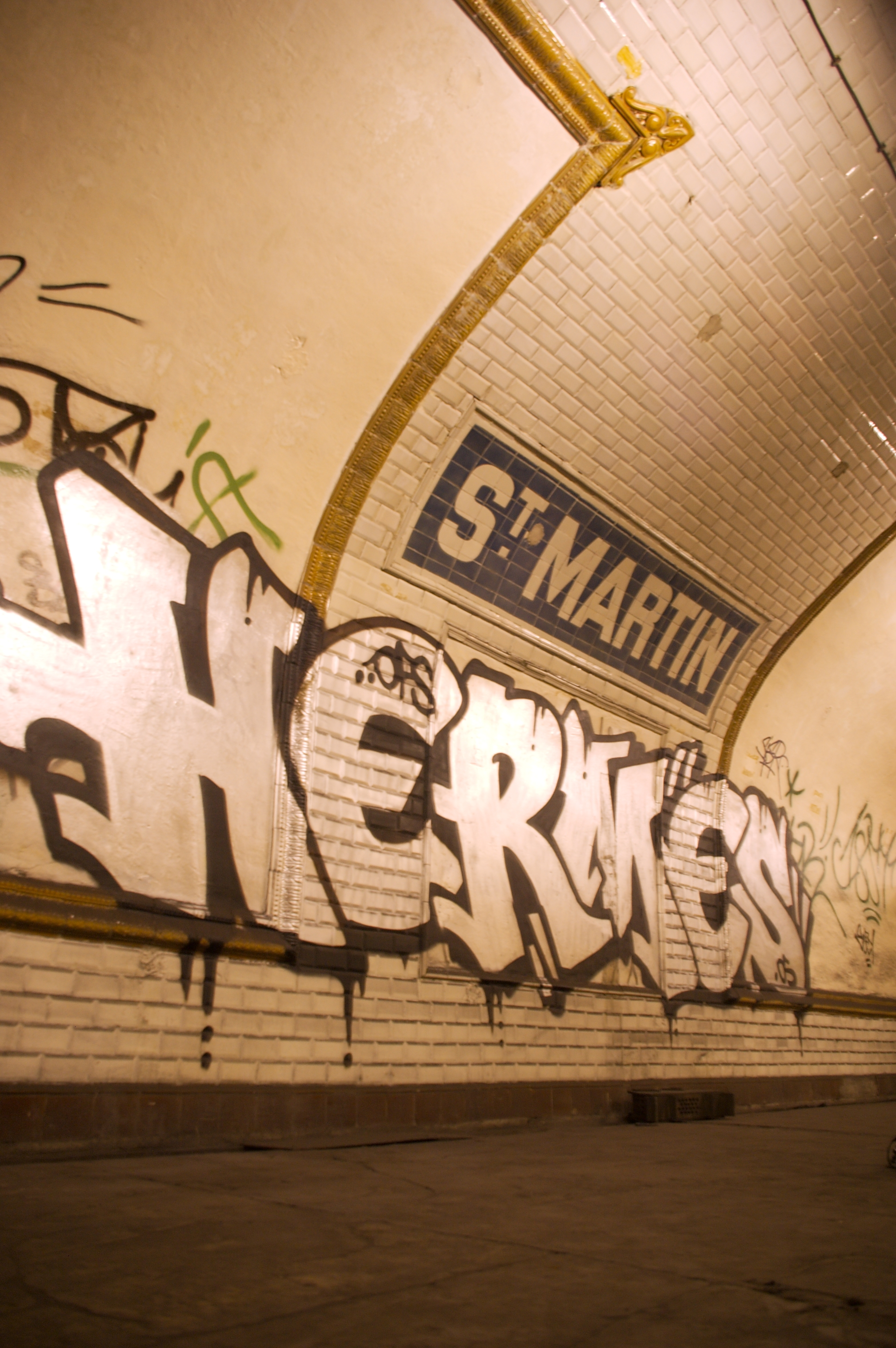 The abandoned Saint-Martin station of the Paris subway.